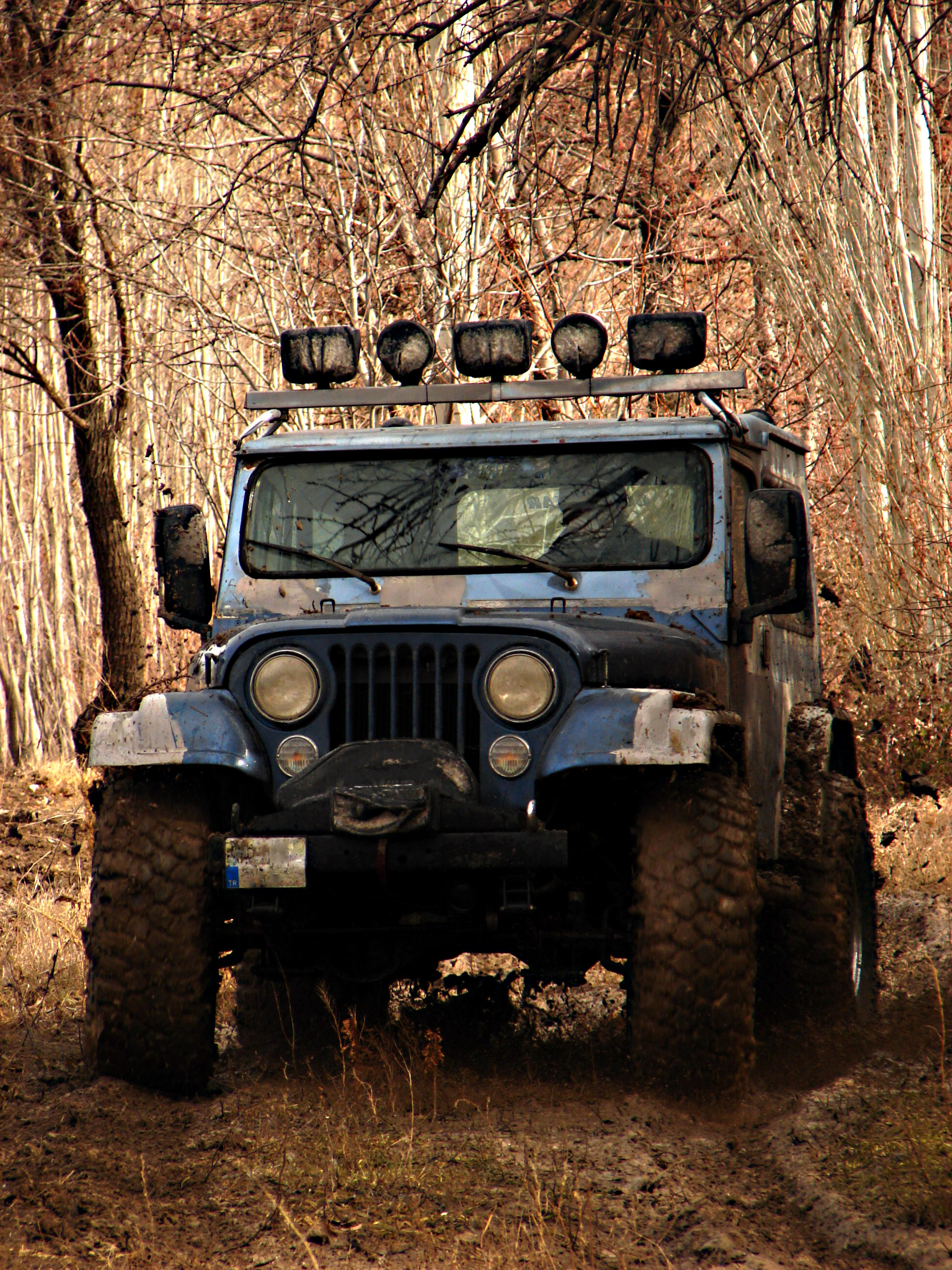 Offroad moving Jeep with splashed mud.